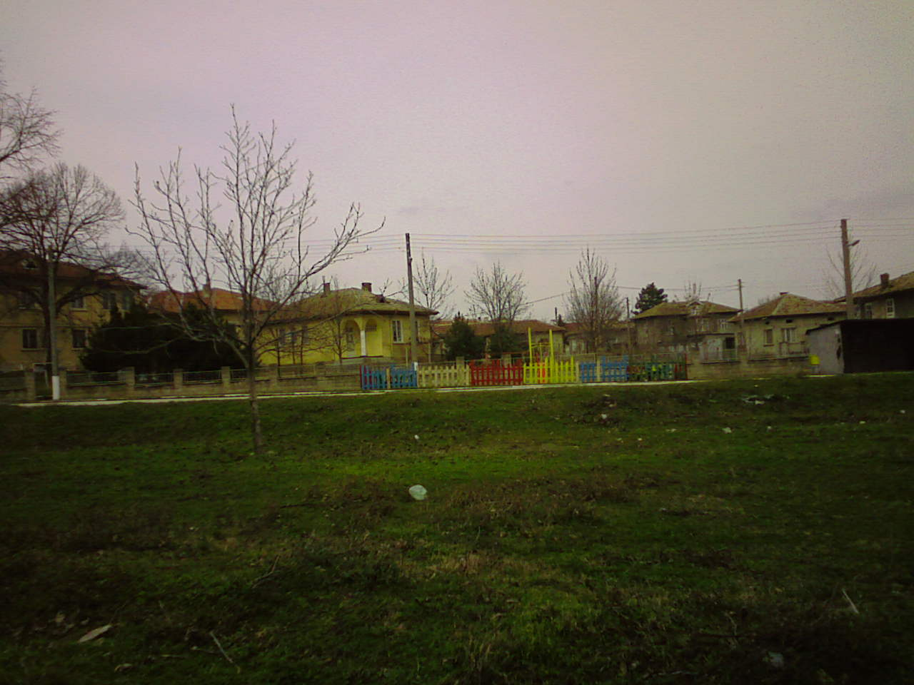 dibich